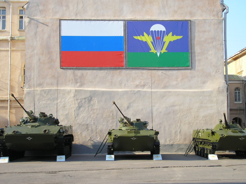 BMD-3, BMD-2 and BMD-1